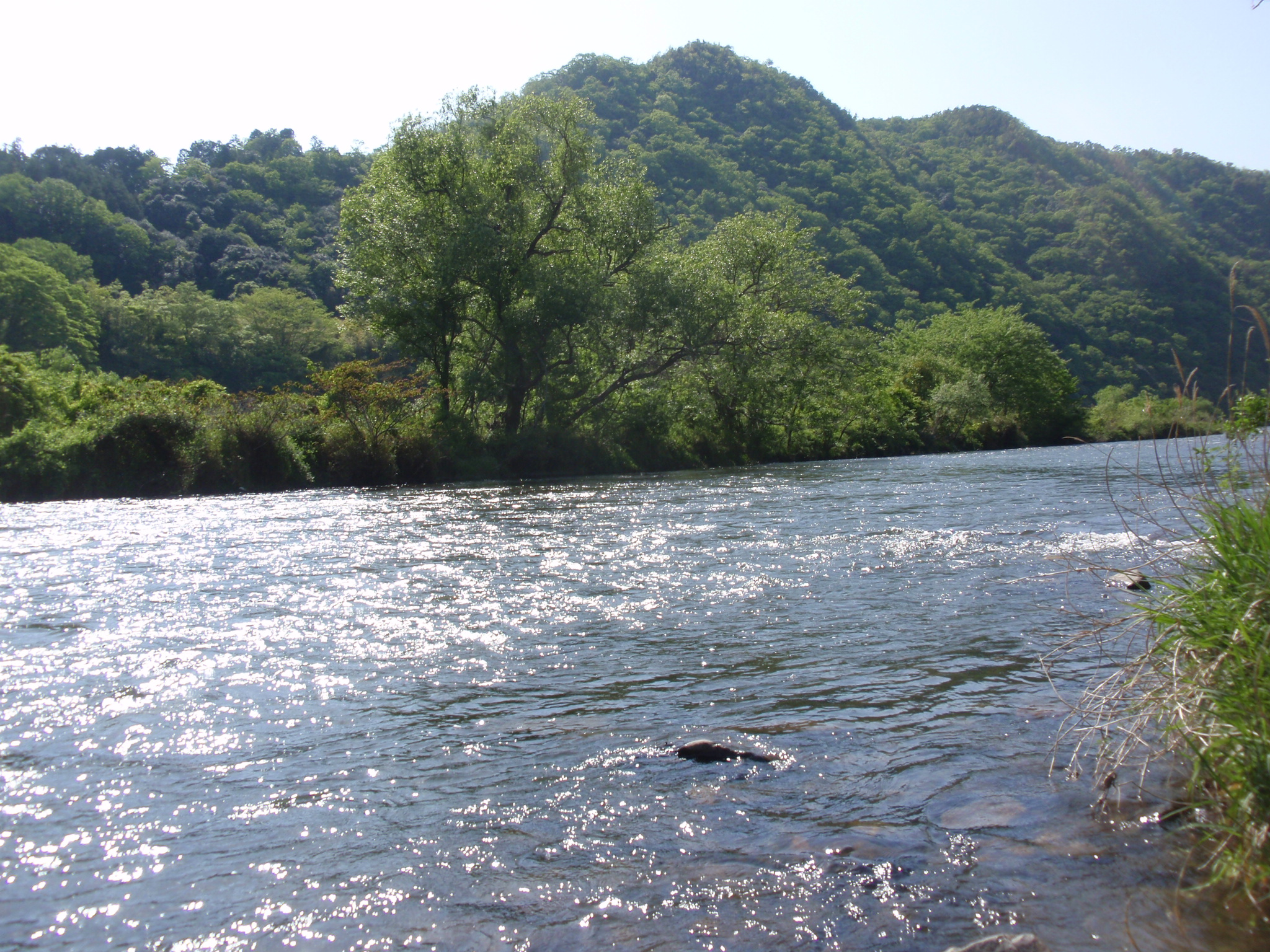 Asahi River (Asahi-gawa) in Takebe, Okayama.